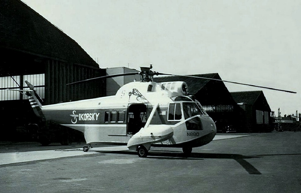 The Sikorsky S-62 prototype (c/n 62-001, dom 1958, civil registration N880) at Paris-Le Bourget airport, France, in June 1959. FAA CoA 9.3.1970/19.9.2013 to Carson Services Inc., Perkasie, Pennsylvaniqa, USA.